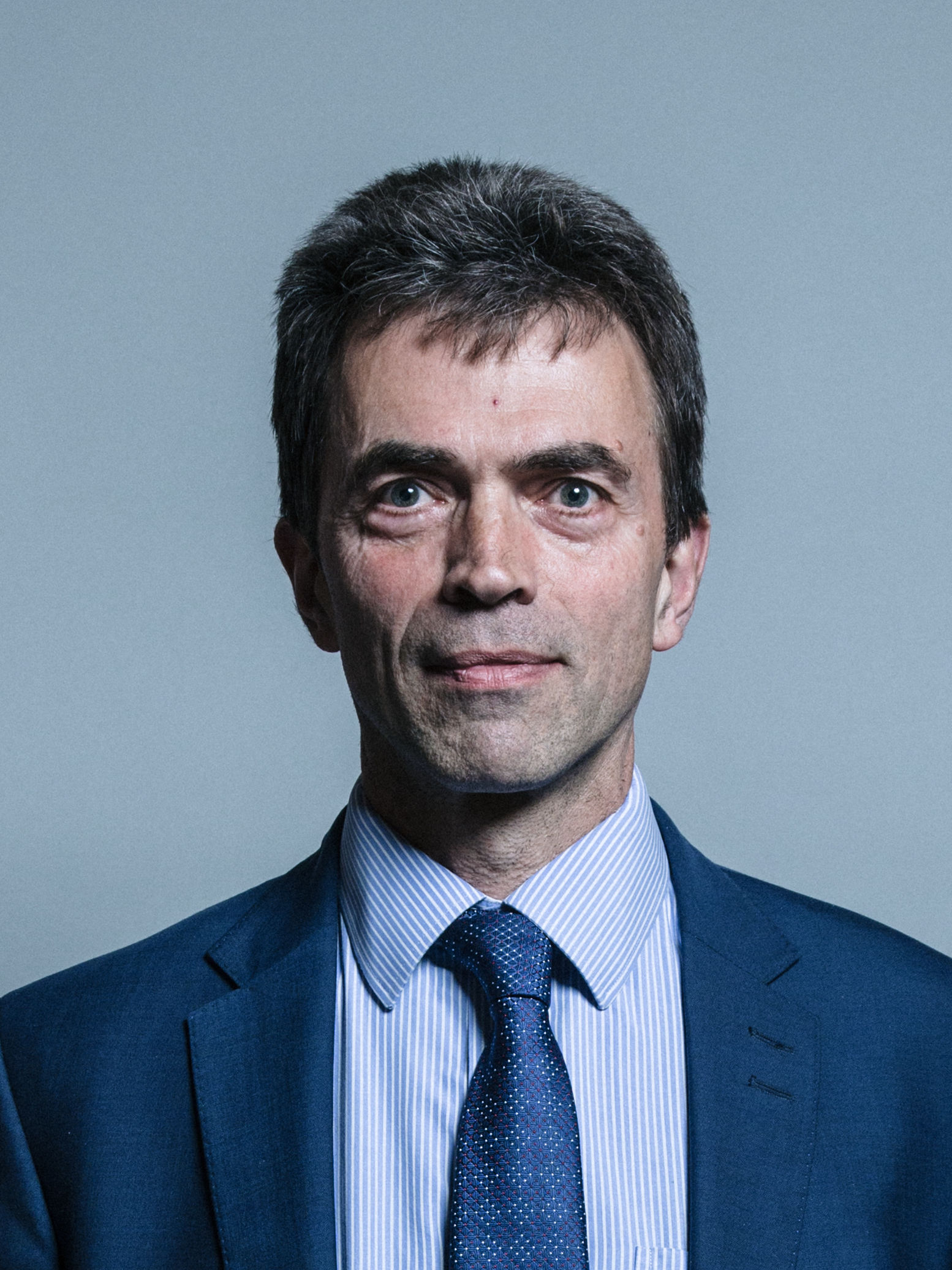 Official portrait of Tom Brake